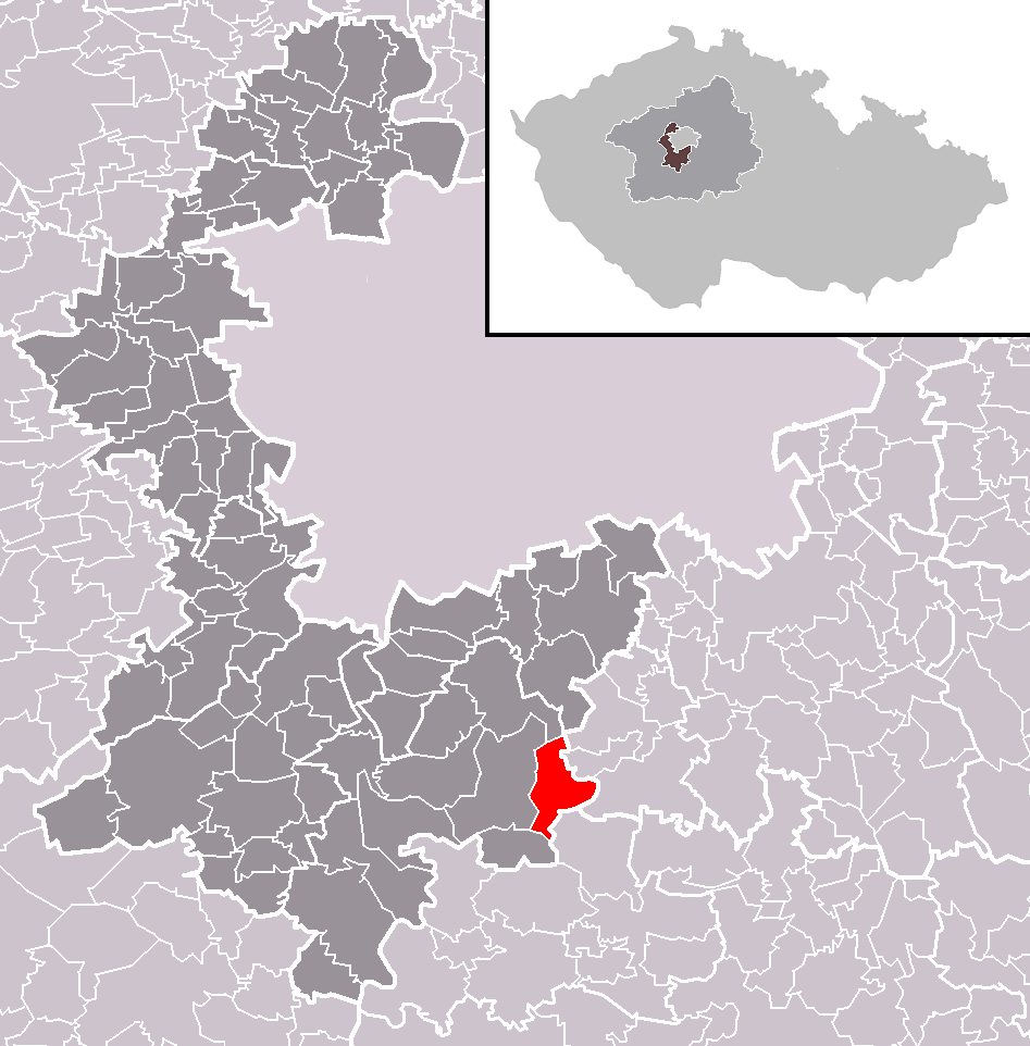 Location of Pohoří municipality within Prague-West District and administrative area of Černošice as a Municipality with Extended Competence.